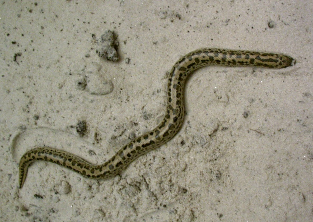 18 month old female Eryx jaculus photographed in a terrarium.